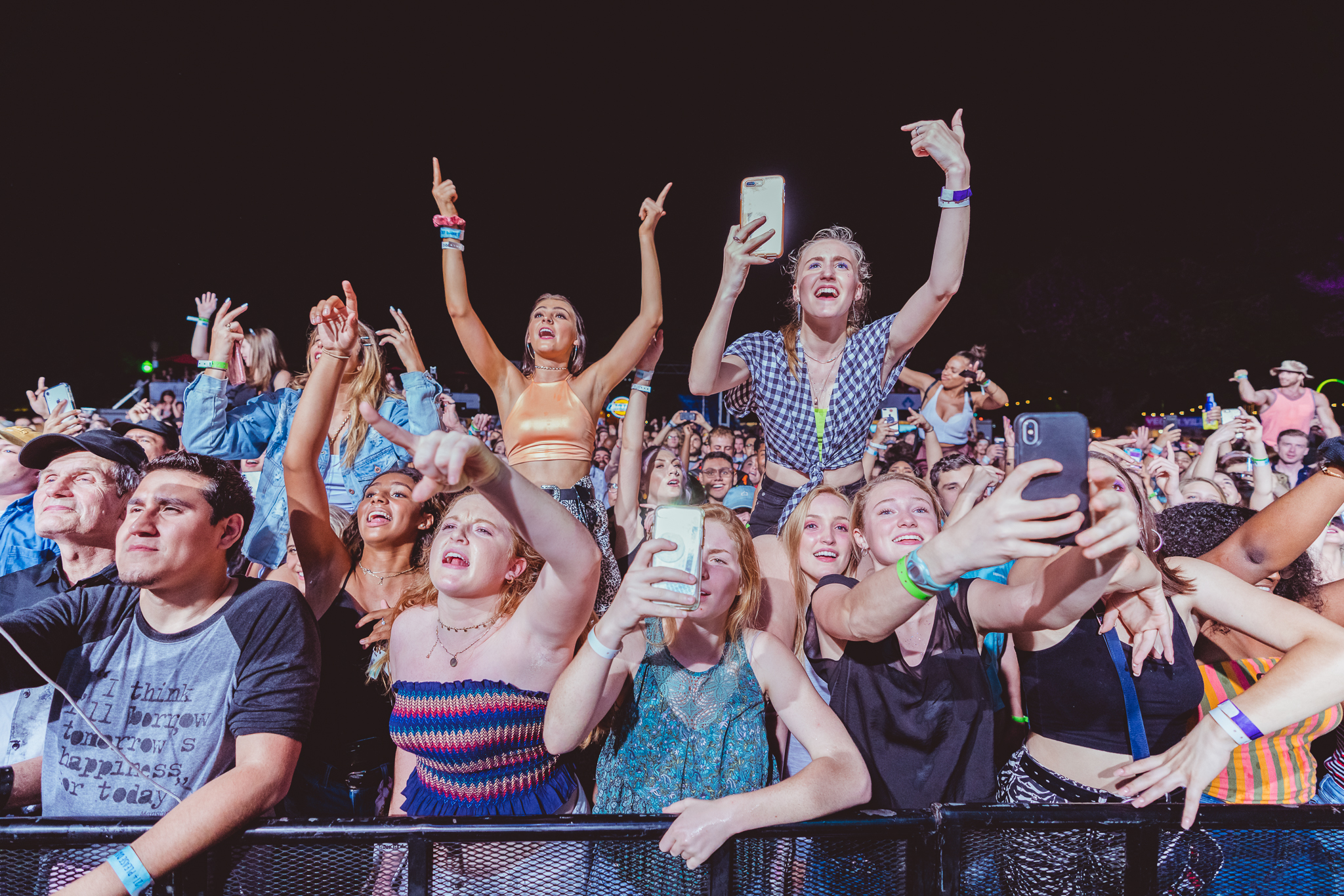 Fans at the Rae Sremmurd performance at Fortress Festival 2019